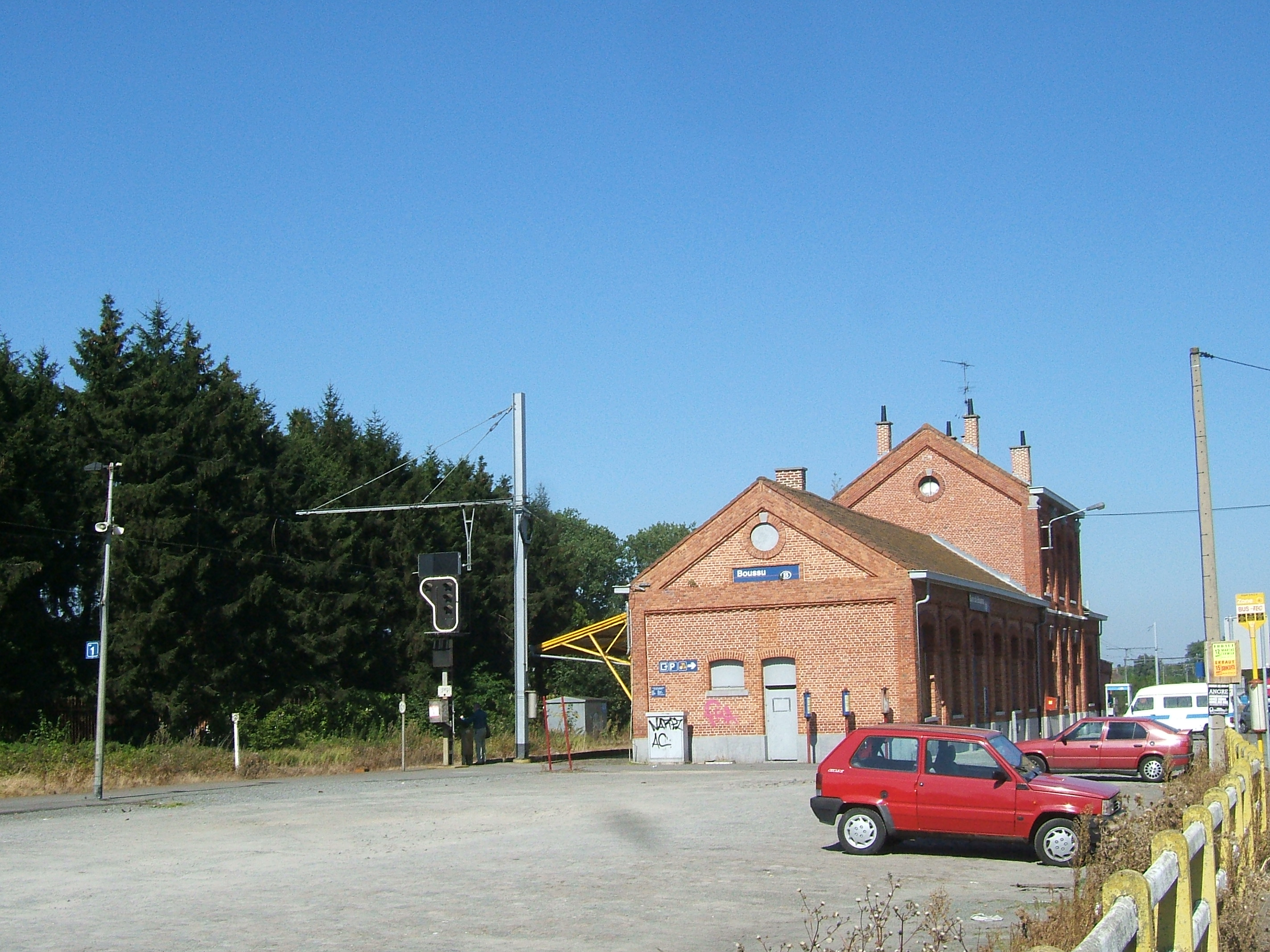 Boussu Railway Station, Belgium